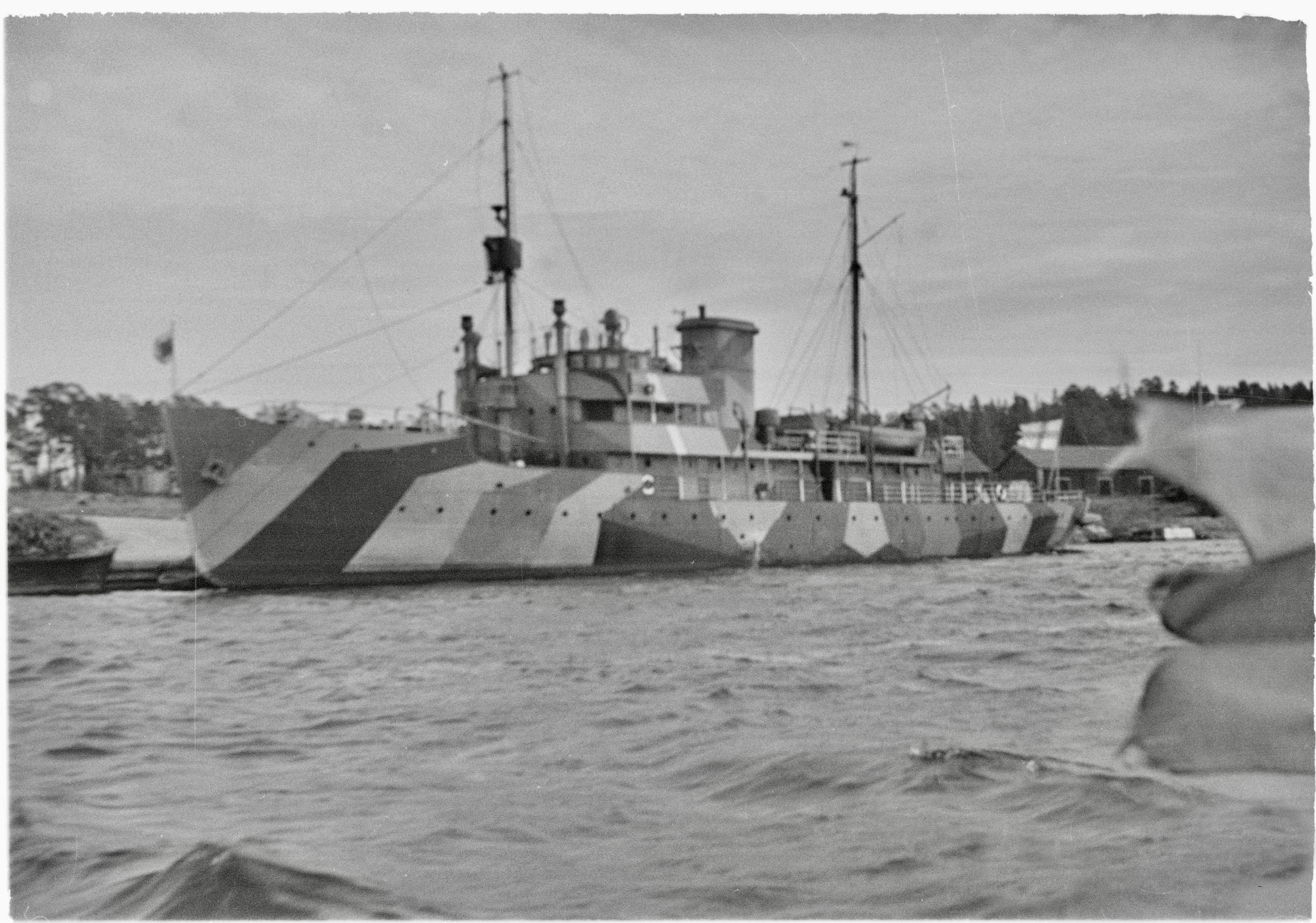 "The marine pilots' duties at Kobba Klintar: The camouflaged icebreaker Sisu". Picture by Fenrik L. Zilliacus.